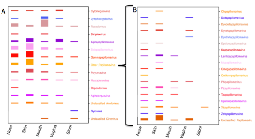 edit figure